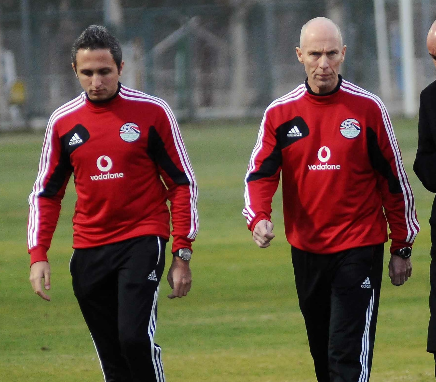 AbdulRahman Magdy & Bob Bradley, former Egypt national team media officer and head coach (respectively) on the training field